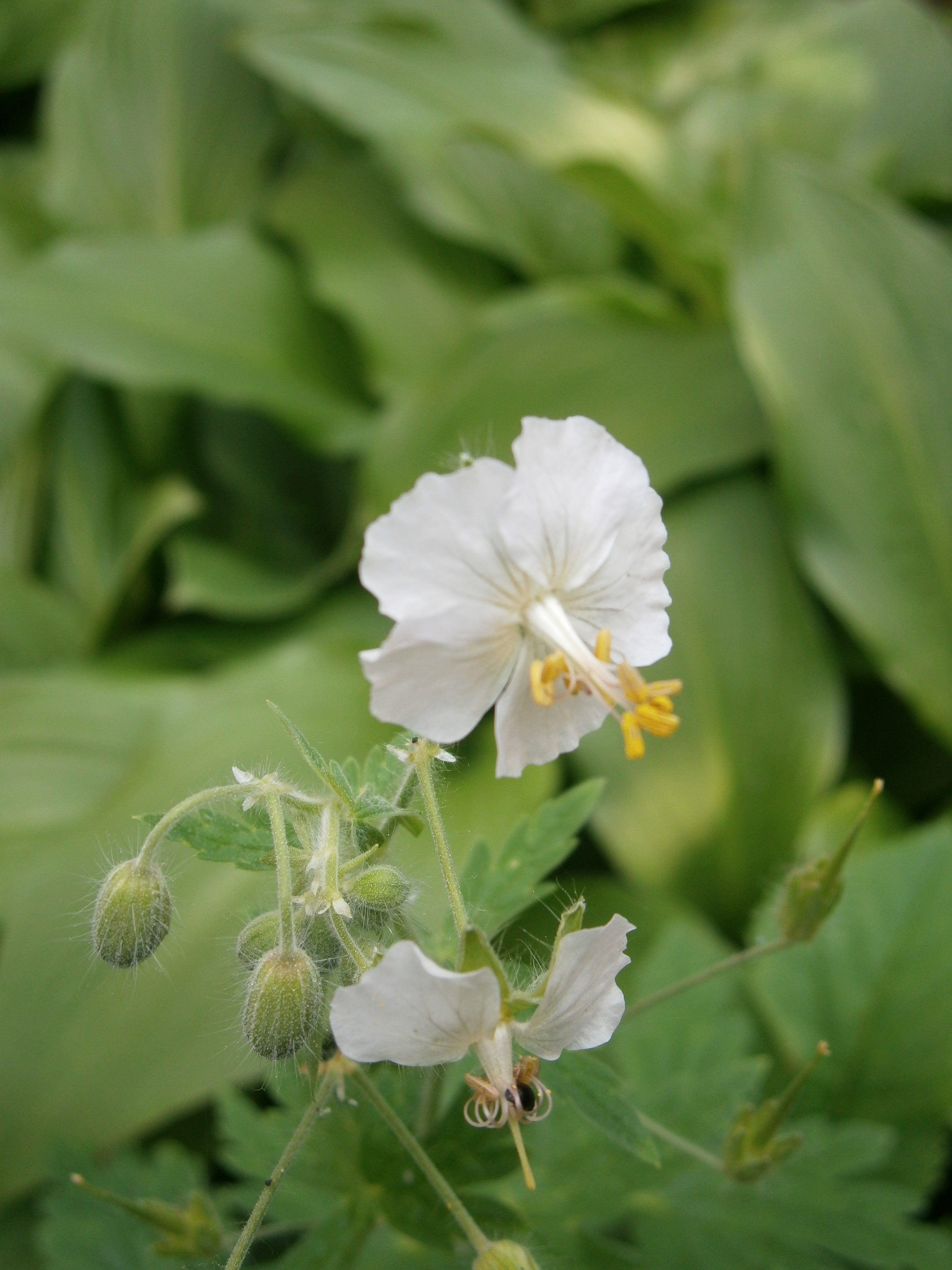 Geranium phaeum 'Album'